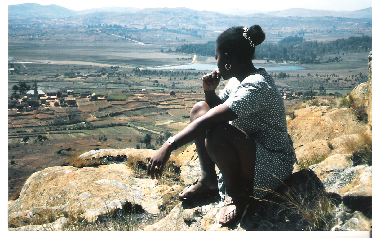 EMELINE RAHOLIARISOA IN THE VILLAGE OF MANDROSOA (ANCIENT HIRA GASY OPERA PLURISECULAR ROOT)